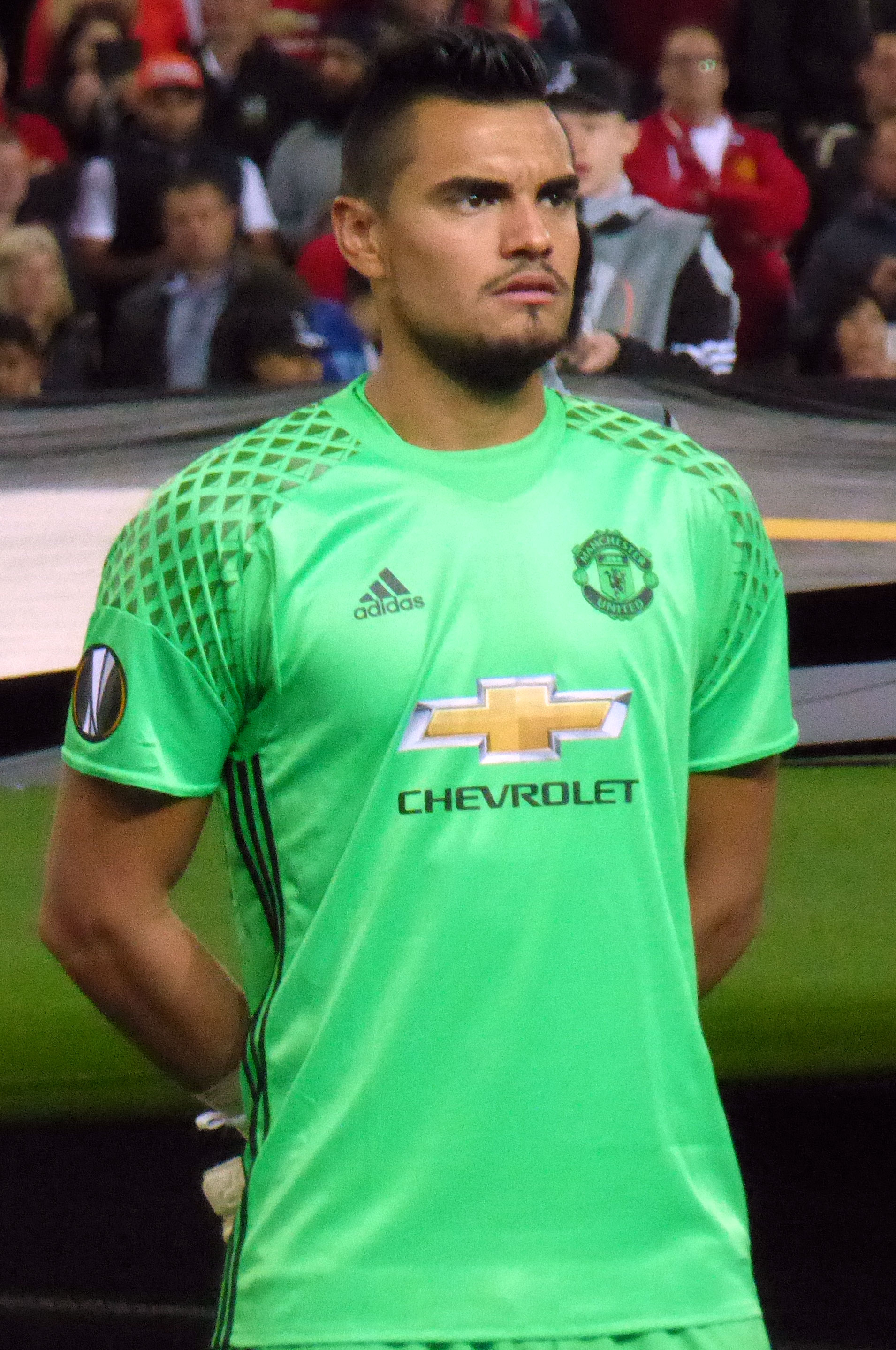 Manchester United v Zorya Luhansk (1-0), Europa League, Old Trafford, Manchester, Greater Manchester, England, September 2016.